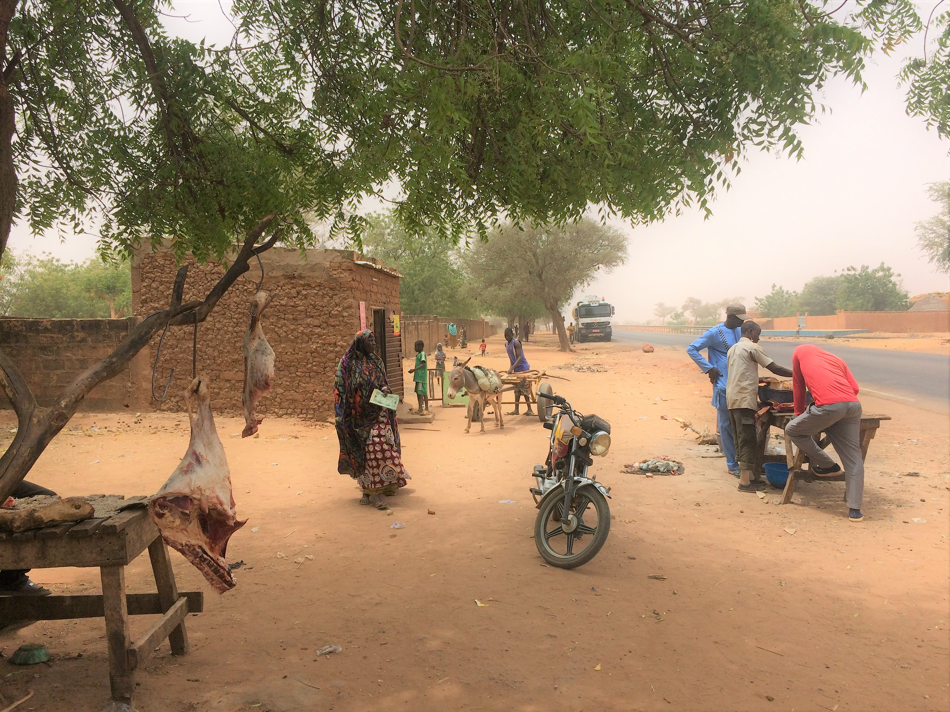 scene in Guesselbodi, a village some 25 km southeast of Niamey along the main road to Dosso, in Niger